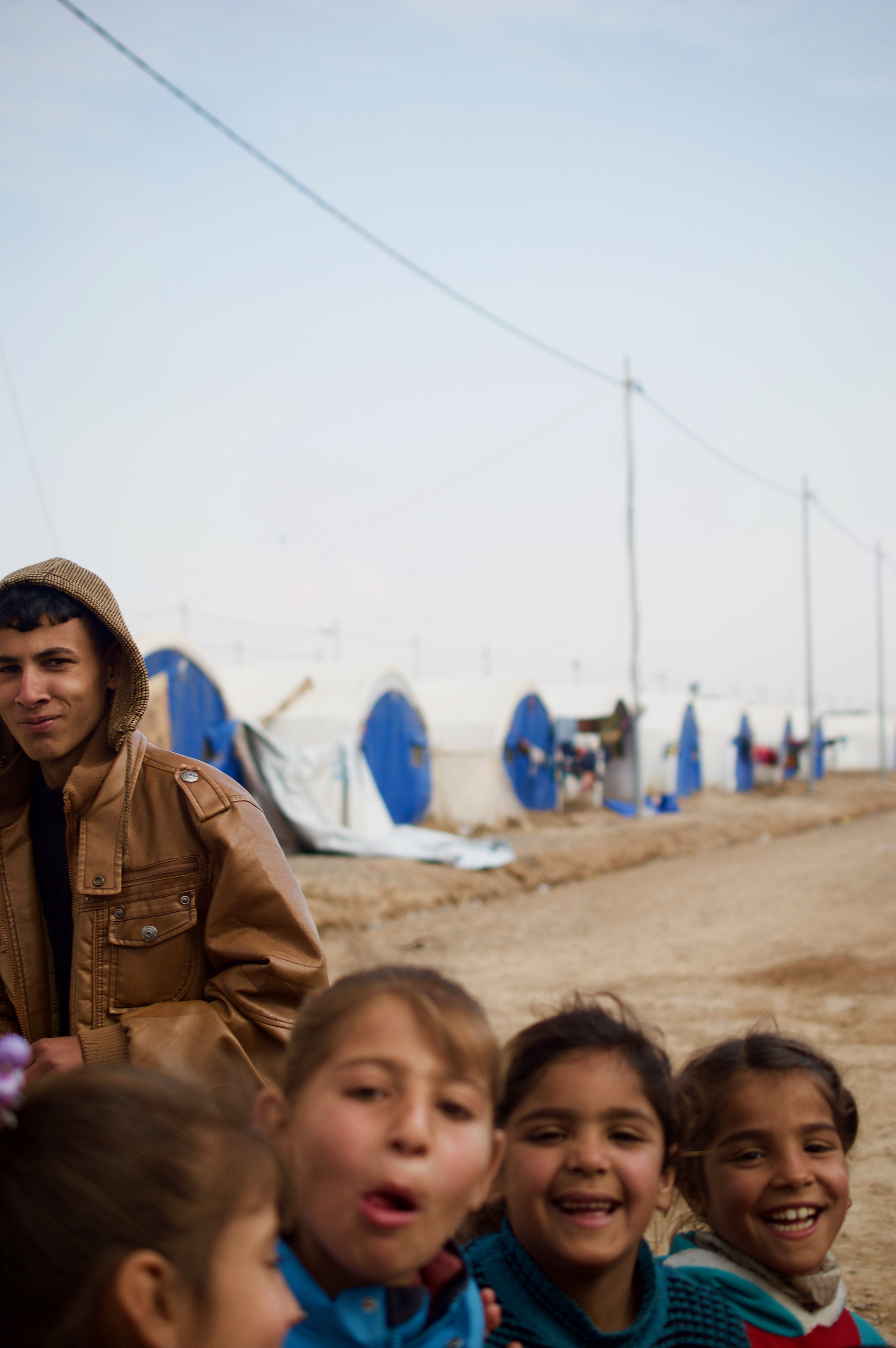 Hassan Sham IDP Camp for Arabs who fled the Islamic State. Located near Erbil Governorate and Mosul (Nineveh Plains) on the border of the Kurdistan Region in Iraq.